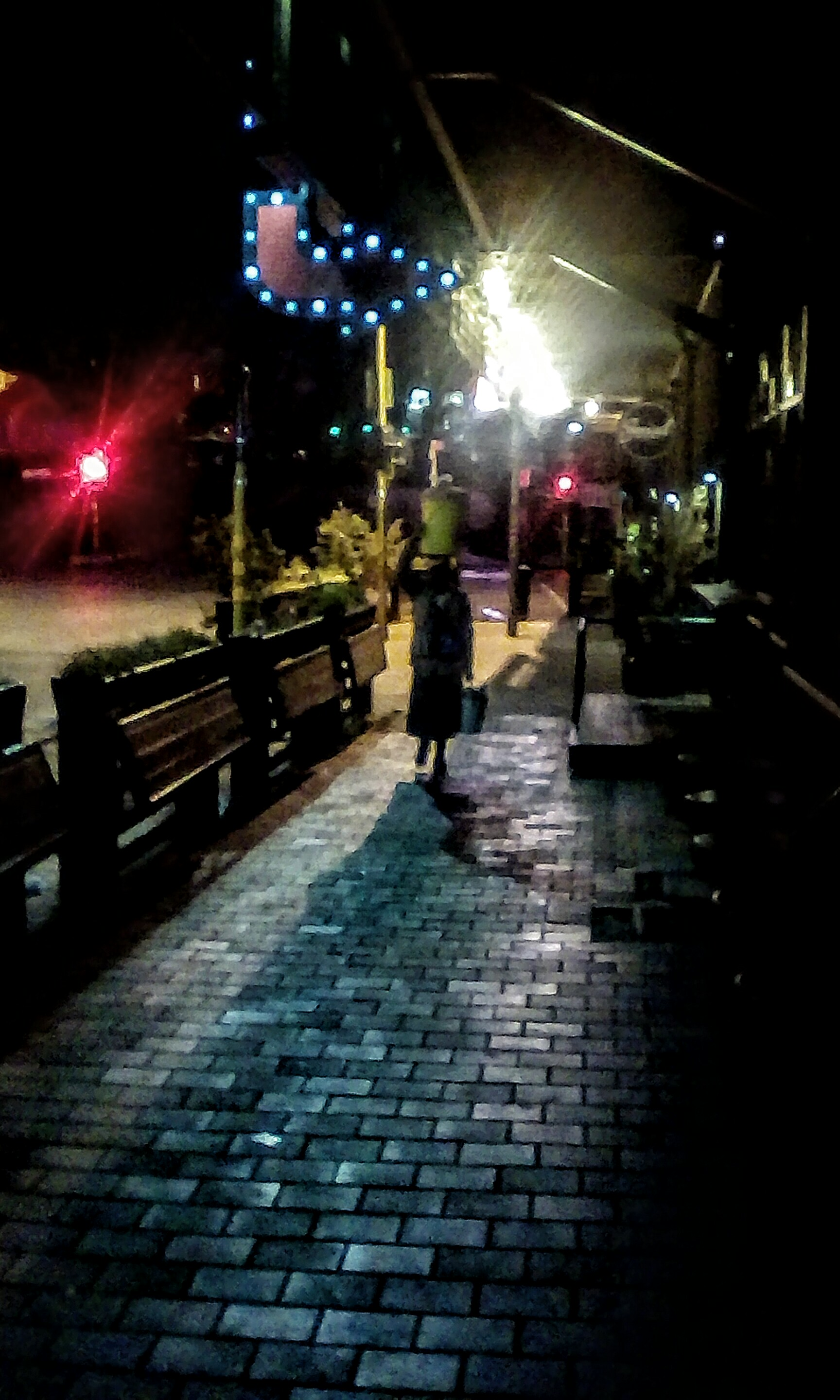 To catch early morning customers on their way to work and night shift workers knocking off, this elderly lady reenacts this daily ritual to support herself and her family This is an image with the theme "Africa on the Move or Transport" from: South Africa